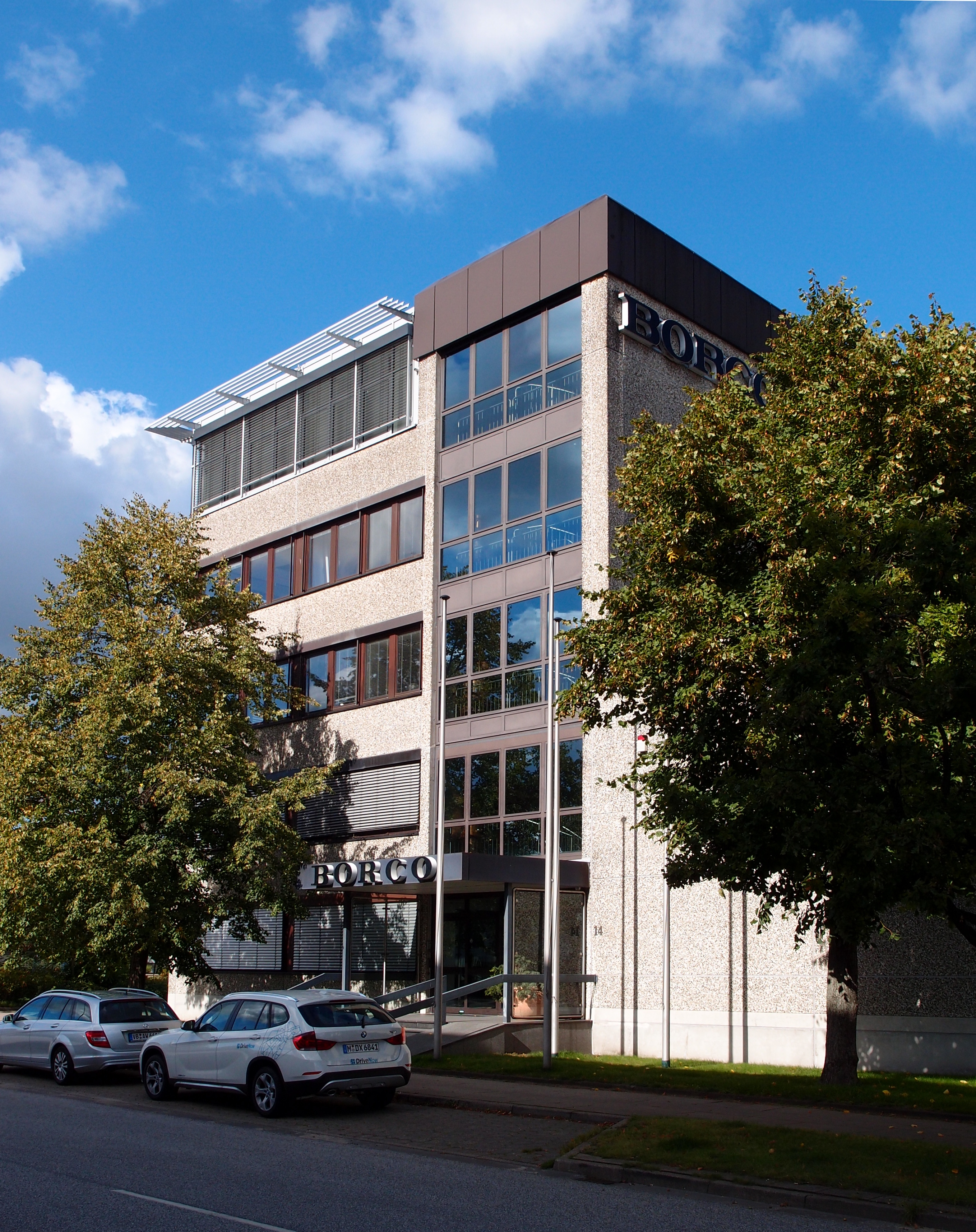 Headquarters of Borco-Marken-Import Matthiesen (or “Borco” for short), a major German liquor distributor, in the Bahrenfeld borough of Hamburg.